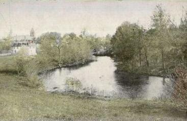 Lamprey River in c. 1920, Epping, New Hampshire. From an old postcard.